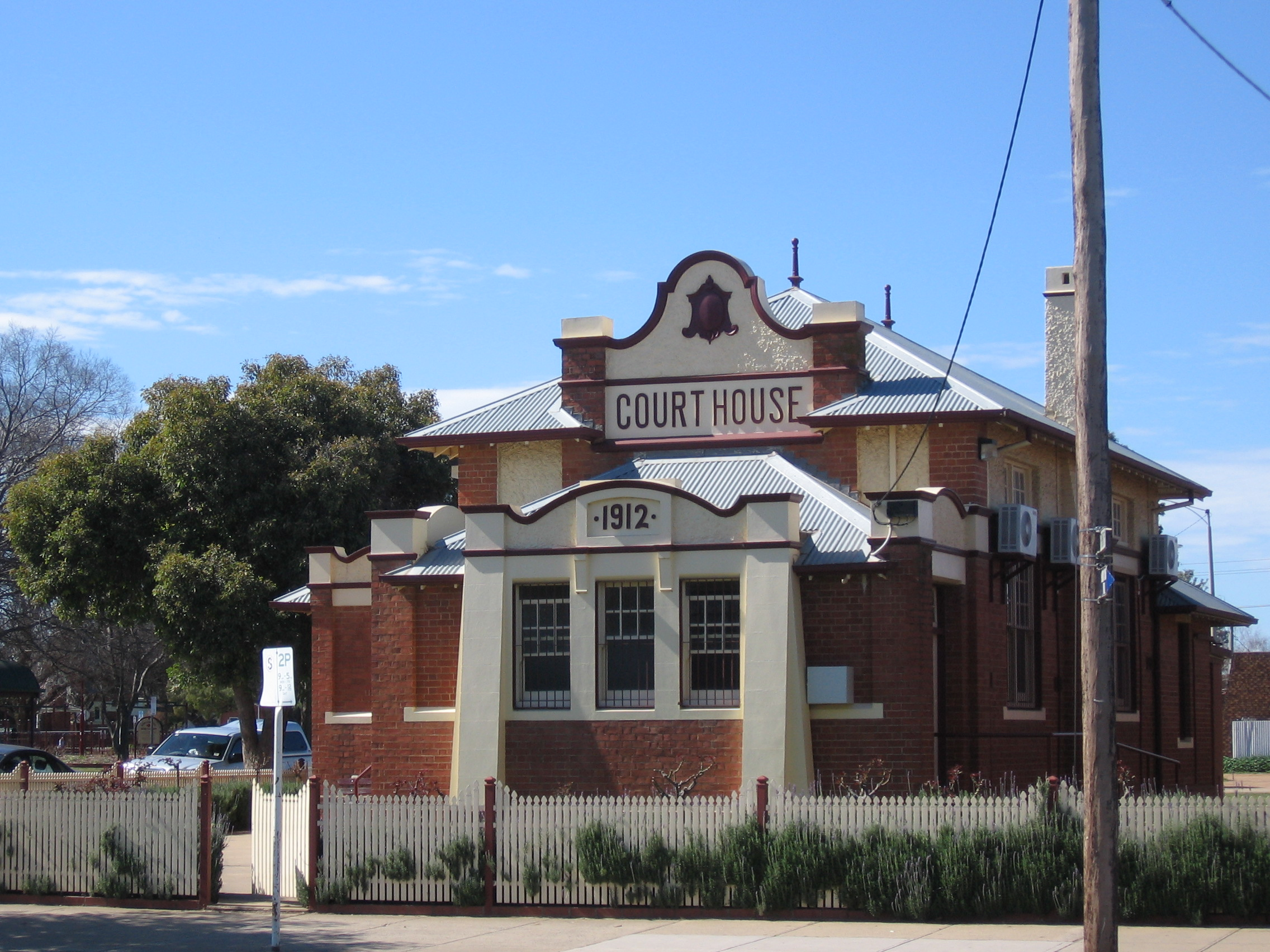 Court house in Cobram, Victoria